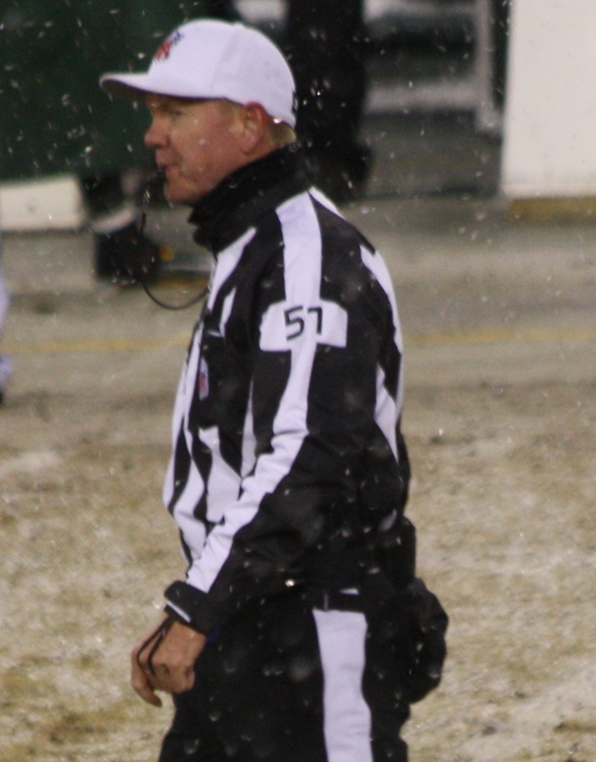 National Football League referee Carl Cheffers at Green Bay, Wisconsin.